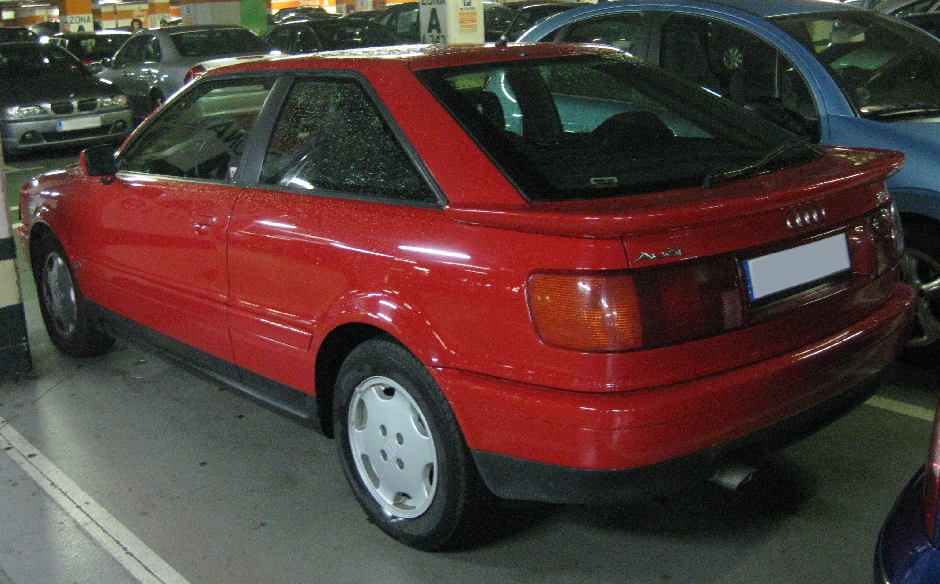 So well cared during so many years, though I guess it was repainted at some point, I don't think paint can remain that good after 17 years. Lovely to see how some people take care of their cars, the red on this one fits very nice. It had a 1992 plate from Santander Cantabria and was spotted at the underground car park of a shopping centre in that city.